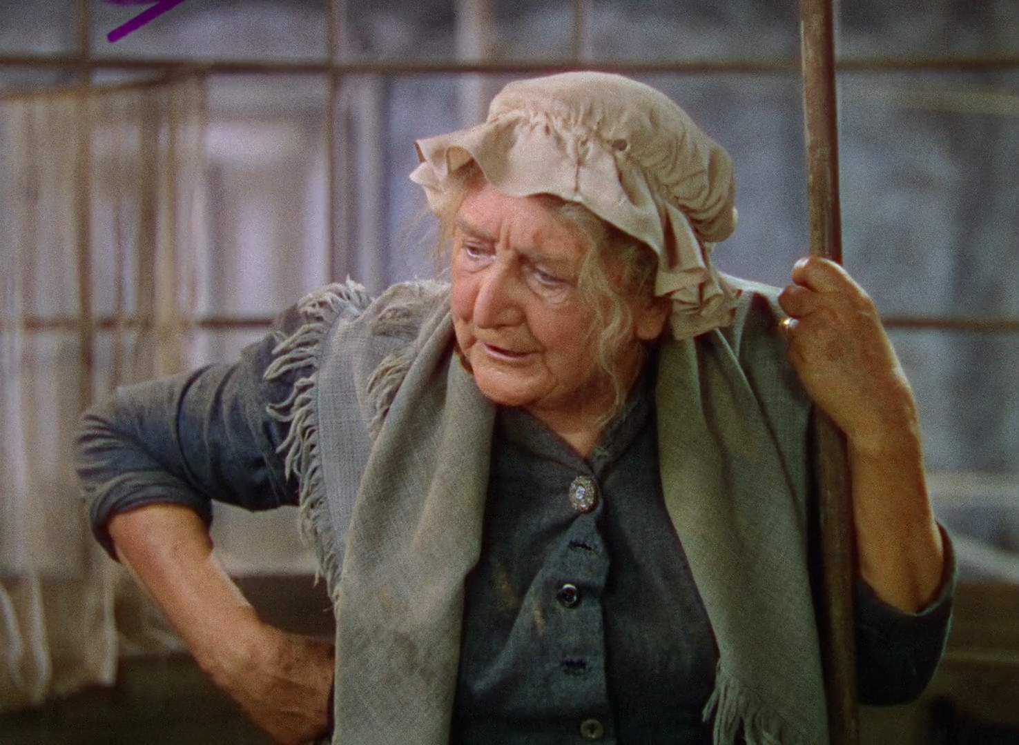 Tempe Pigott in Becky Sharp (cropped screenshot)